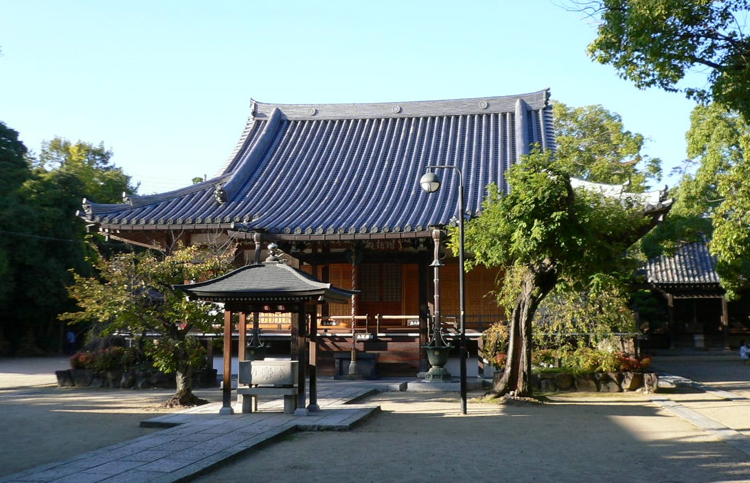 Kon'youji Hondō (Temple in ItamiHyōgo Prefecture, Japan)